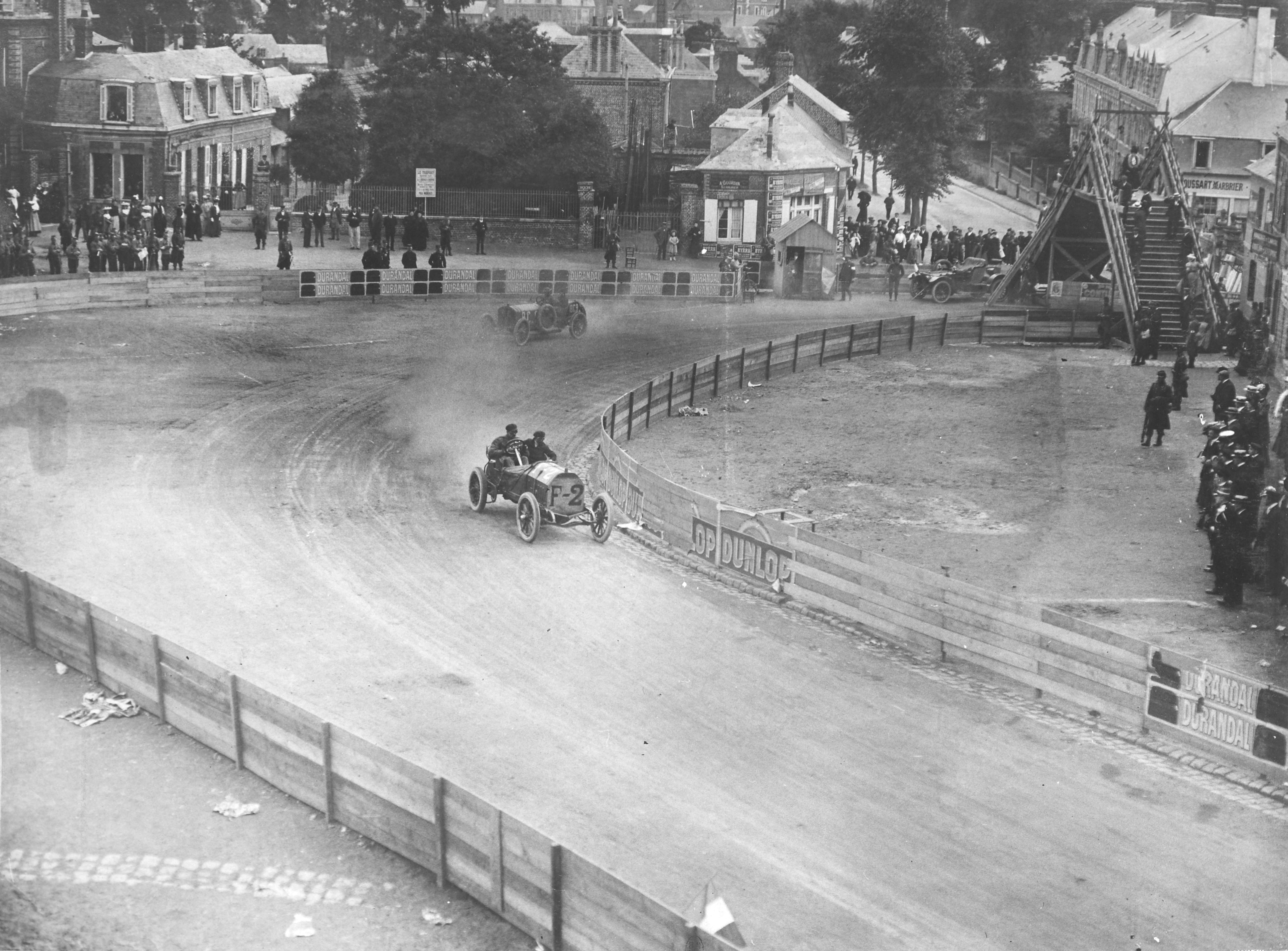 Eventual race winner, Italian driver Felice Nazzaro, rounds the Eu hairpin in the early stages of the 1907 Grand Prix de l'Automobile Club de France (commonly known as the 1907 French Grand Prix). Behind his Fiat 130 HP Corsa car (number F-2), pseudonymous driver "Alezy" is just entering the bend in his Clément-Bayard car (number BC2). Alezy retired after completing 4 laps of the 10 lap race, therefore this image must have been taken in that first portion of the race.